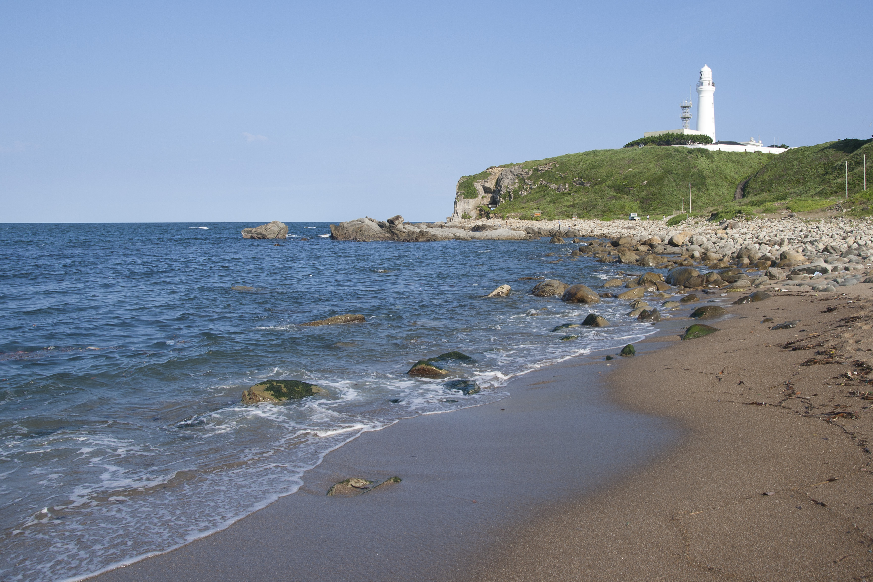 Cape Inubō, Choshi City, Chiba Prefecture, Japan.